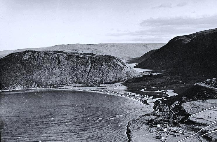 Photograph, glass lantern slide, L'Anse-Pleureuse, Gaspé, QC, Silver salts on glass - Gelatin dry plate process - 8 x 10 cm